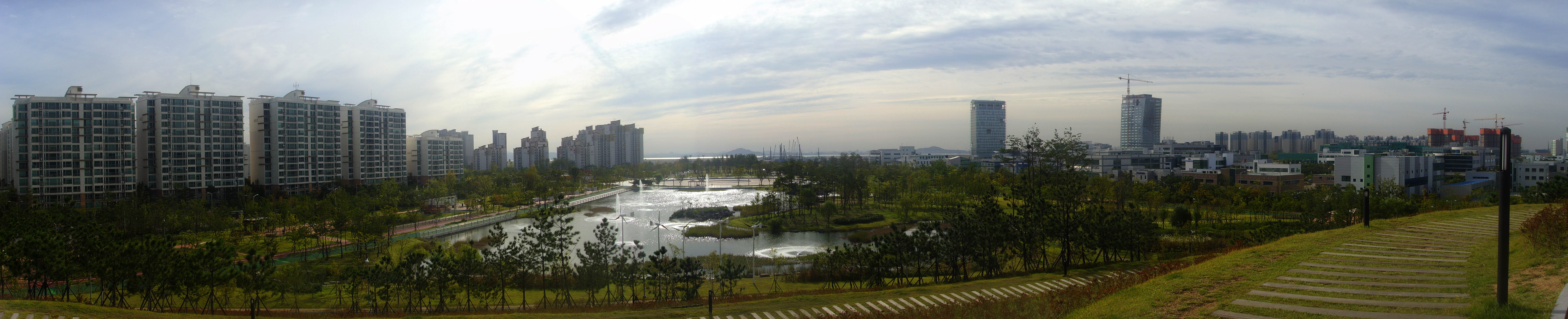 New Songdo City Central Park